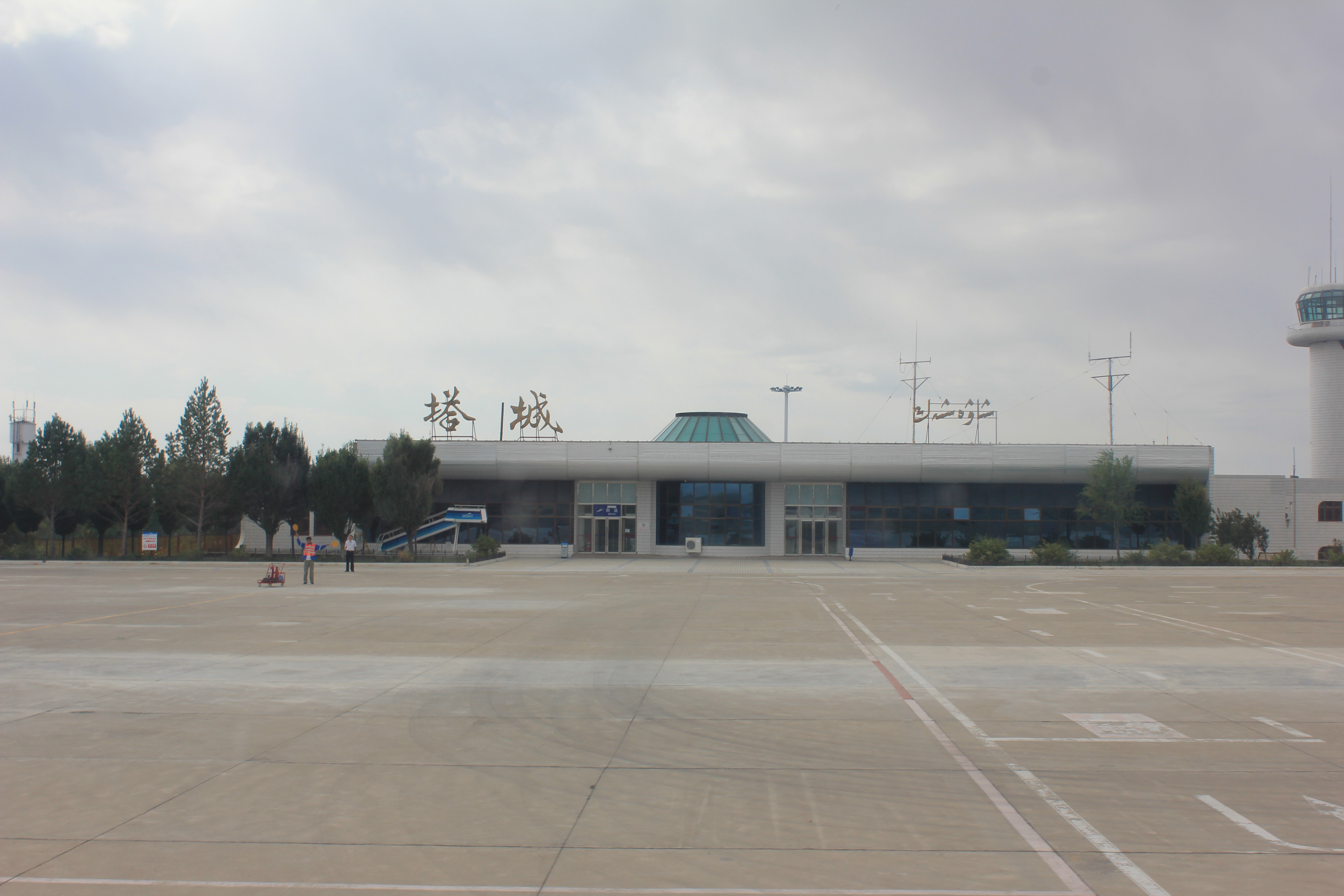 Tacheng airport terminal (TCG) as seen from the airfield